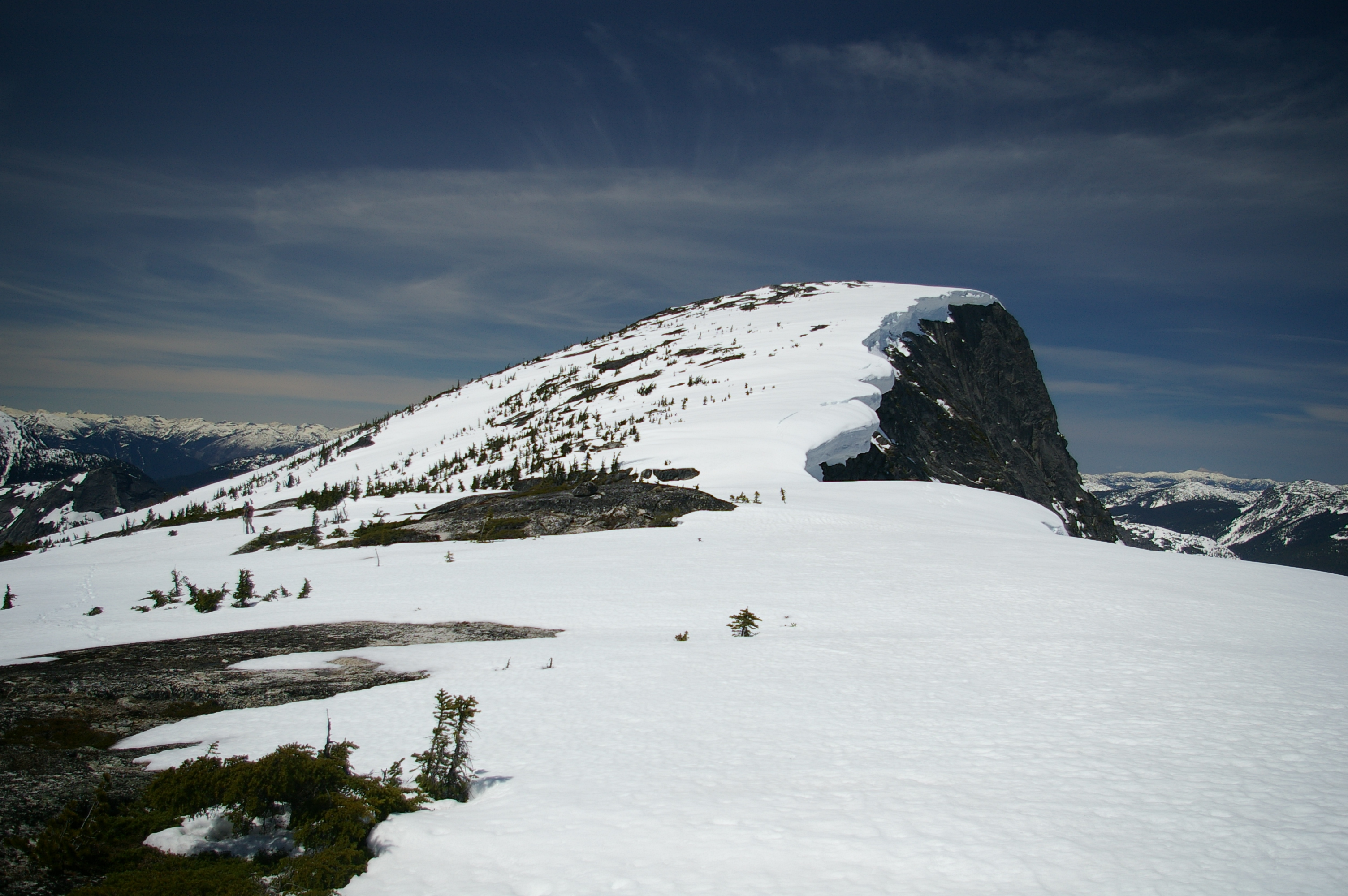 Approaching summit of Alpaca Peak via southeast ridge. Canadian Cascades